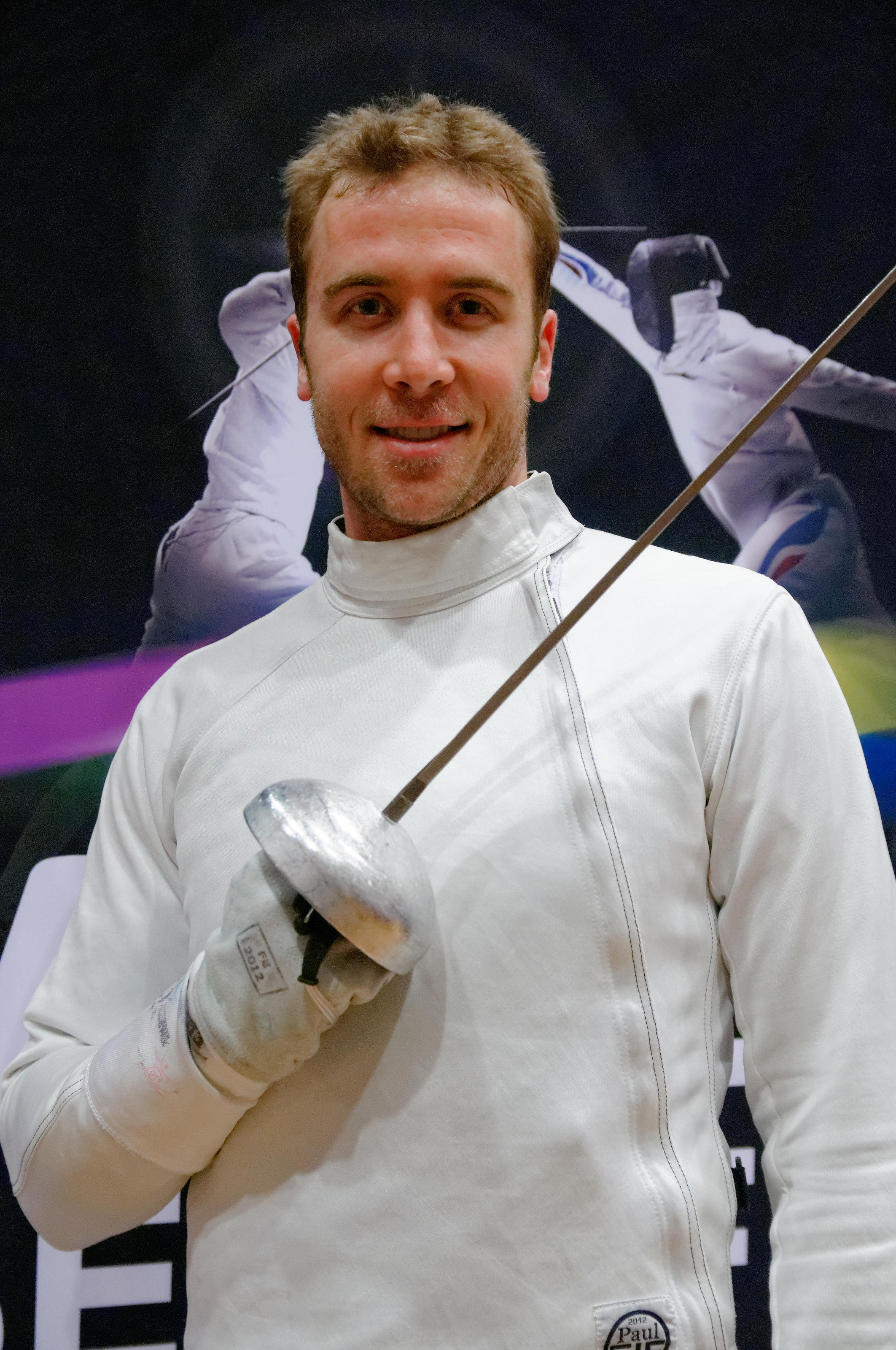 Soren Thompson during the Challenge Réseau Ferré de France–Trophée Monal 2013, a men's épée FIE World Cup competition.